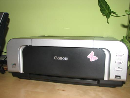 Inkjet Canon Pixma 4200